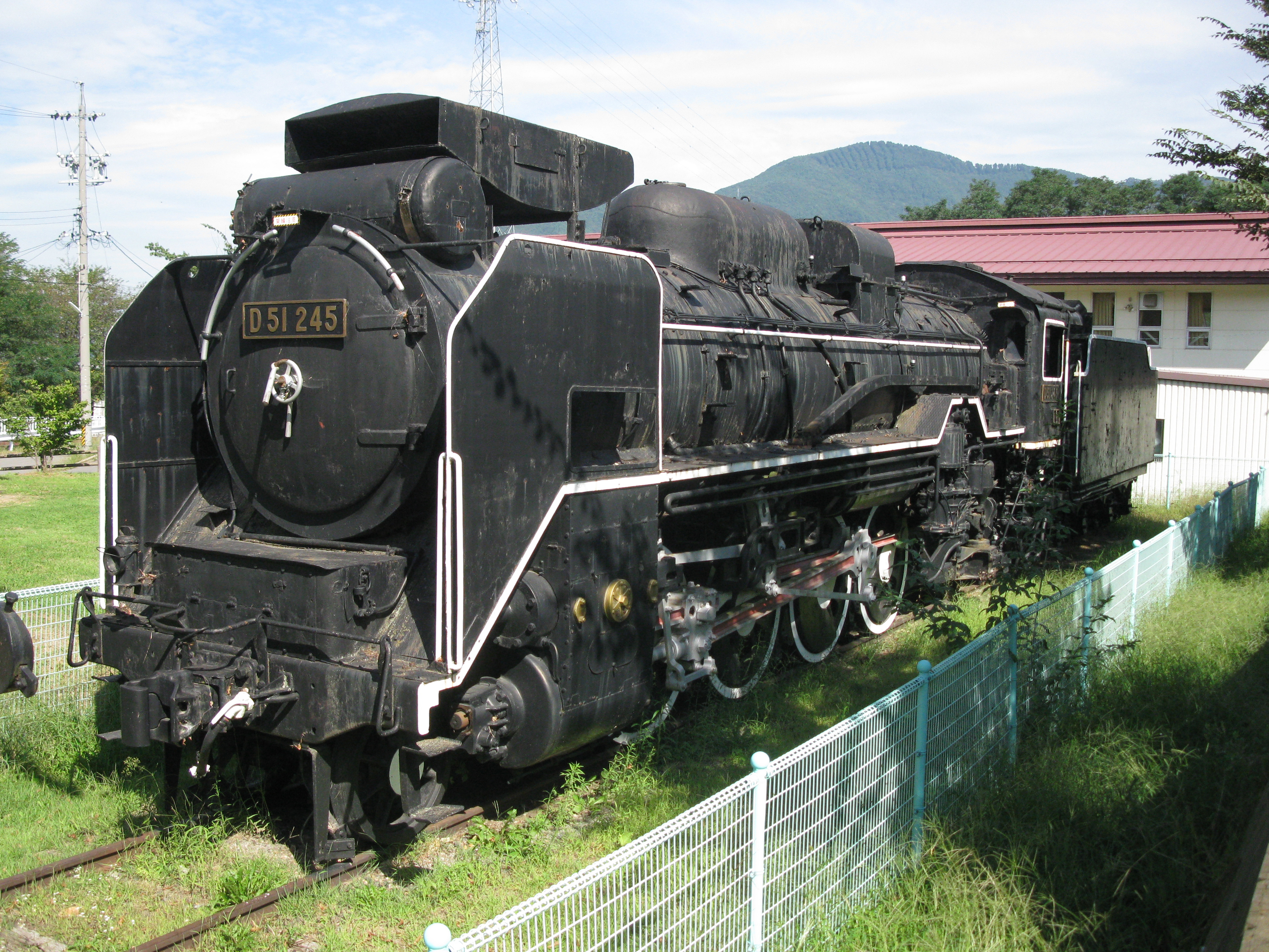 JNR Steam Locomotive Class D51 no.245 (Sakaki town, Hanishina district, Nagano prefecture, Japan)